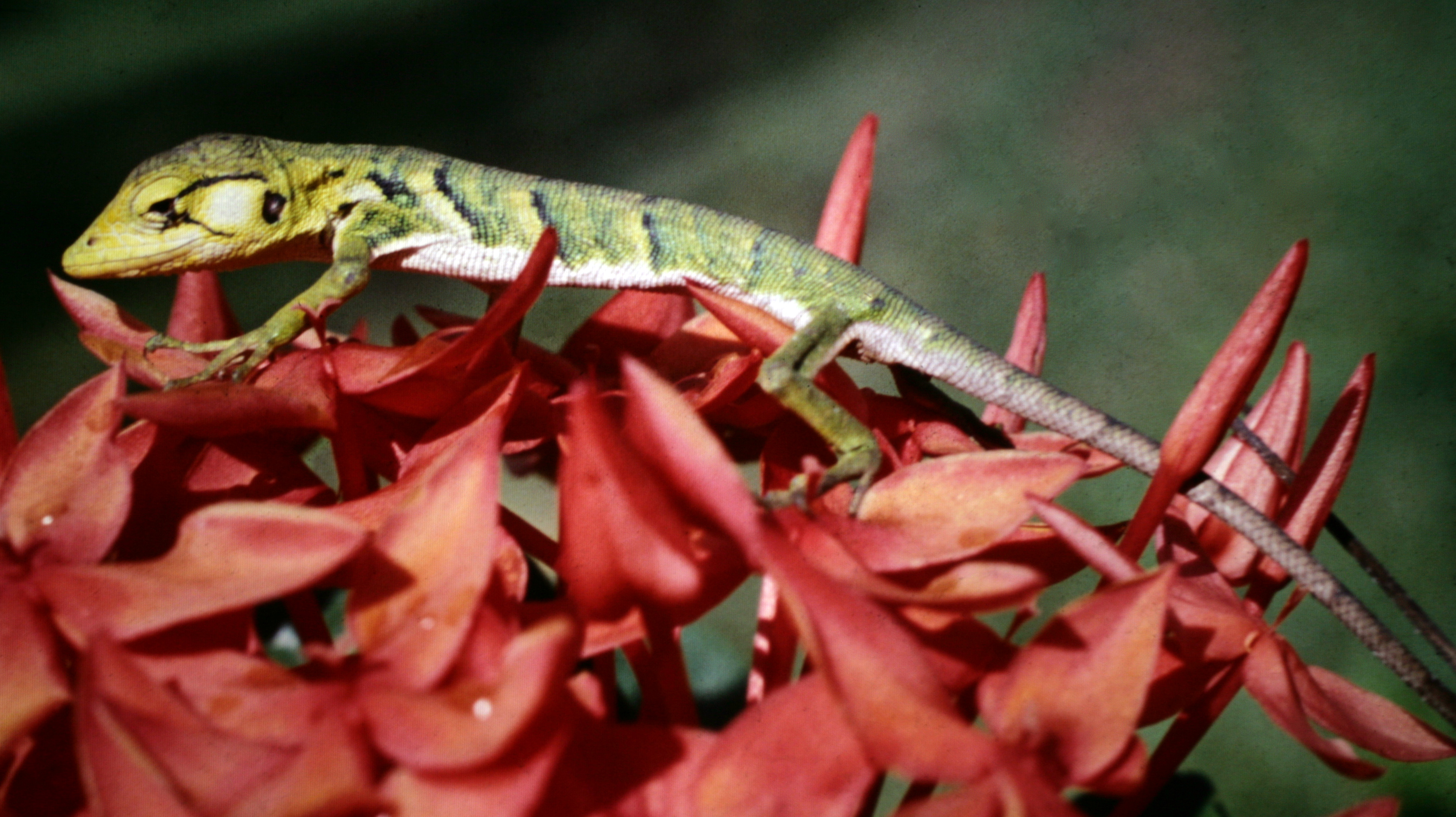 Young Polychrus marmoratus on Ixora coccinea, Suriname. Found and photographed in my garden, near Paramaribo (Tweede Rijweg). (I found this lizard (several times) on the wooden gate in my frontyard, put it on the Ixora for the photo.)